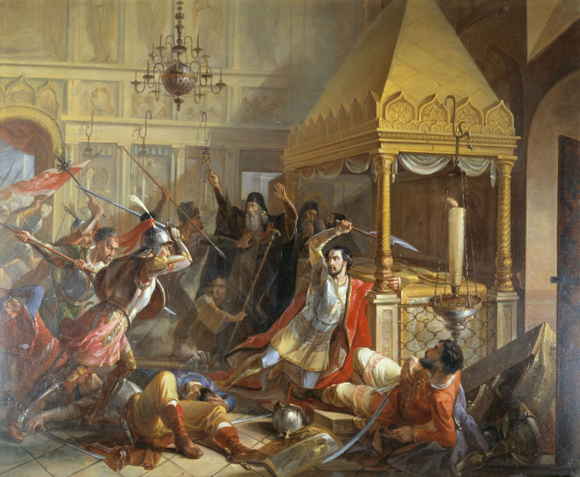 V. K. Demidov (1842). The last deed of prince Mikhailo Volkonsky. Fighting the Poles in Pafnutyev Monastery in Borovsk in 1610. Kaluga Museum of Arts.